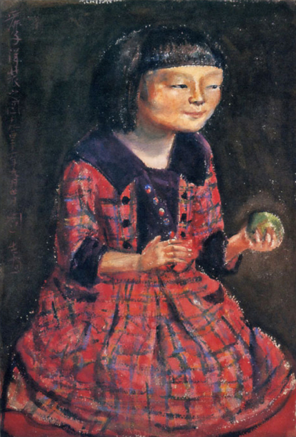 Portrait of Reiko in Western Dress, by Kishida Ryusei, Toyota Municipal Museum of Art, Toyota, Aichi, Japan